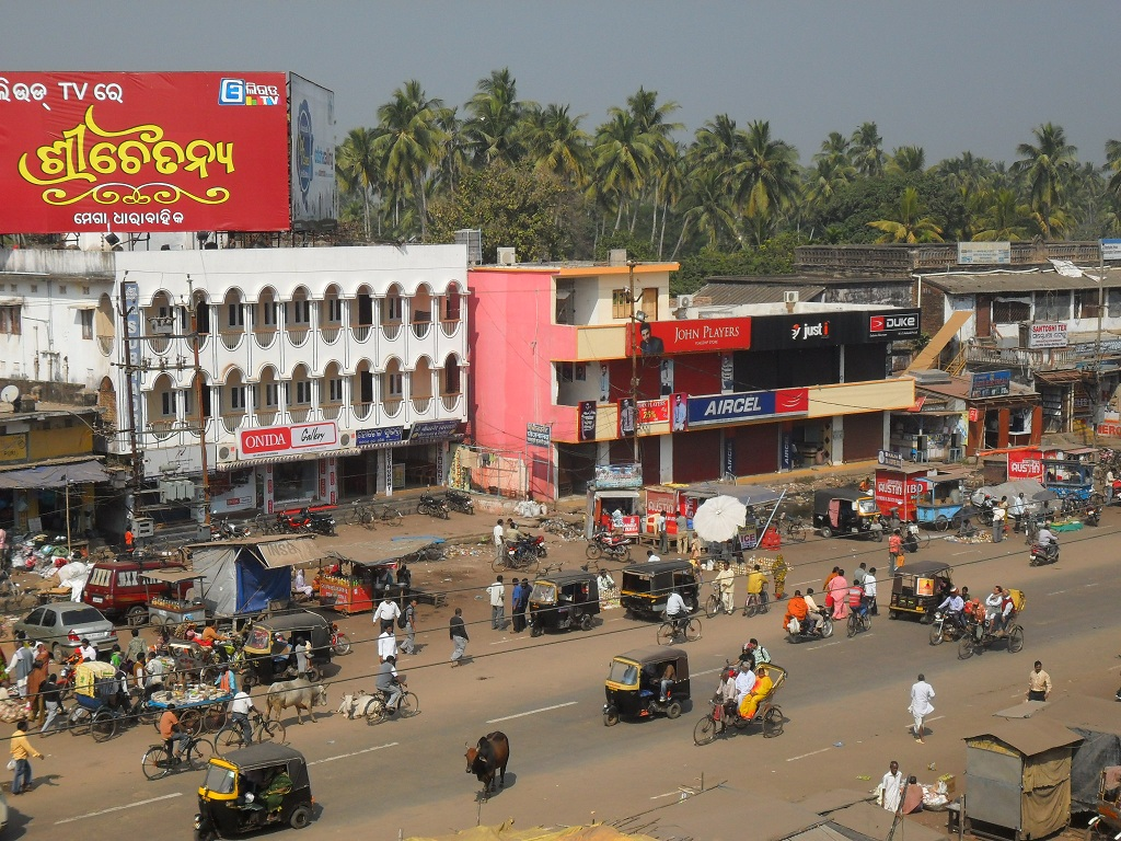 Streetscape, Puri, Orissa, India